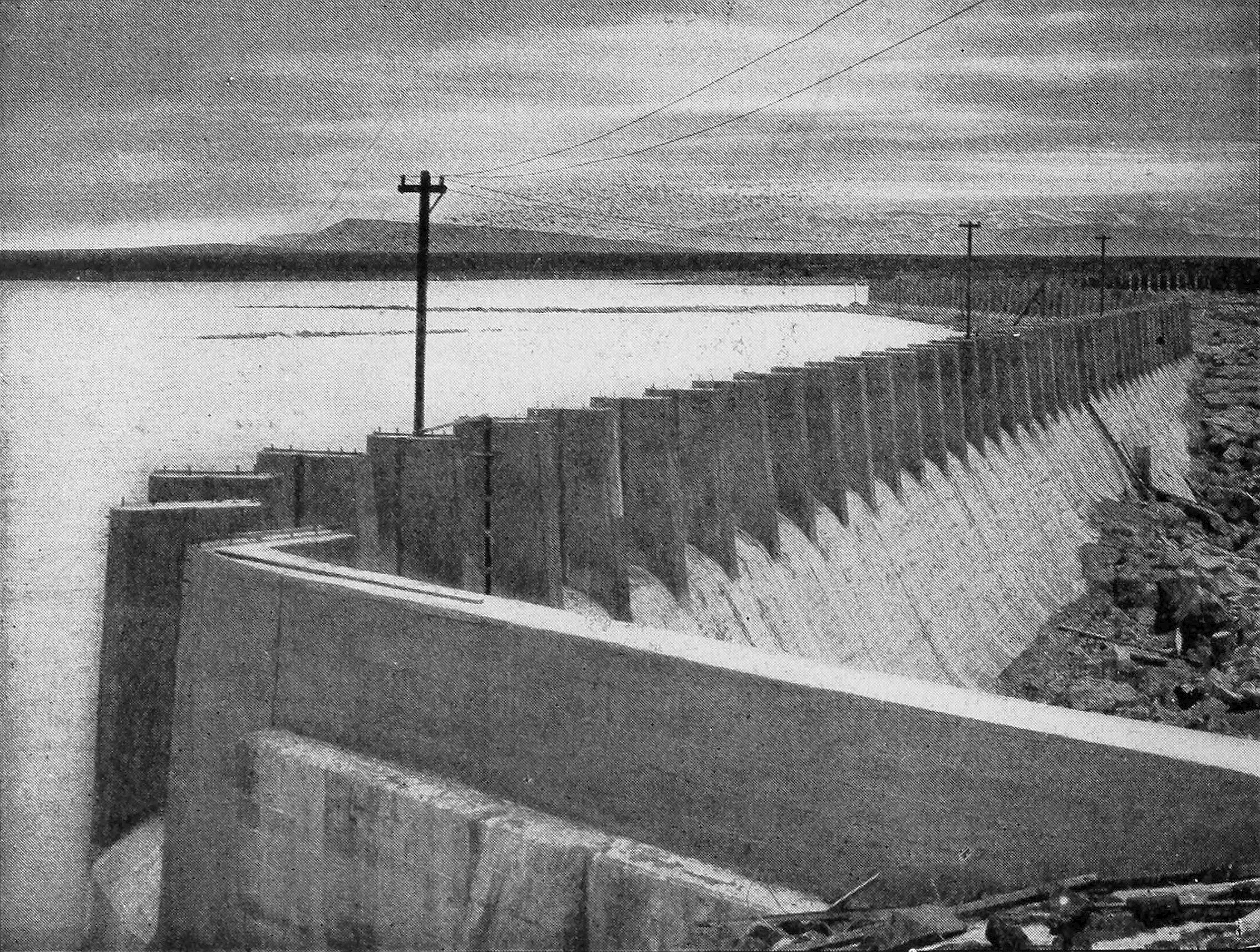 Minidoka Dam on Snake River in Idaho. Identifier: cassiersmagaz401911newy Title: Cassier's magazine Year: 1891 (1890s) Authors: Subjects: Engineering Publisher: New York Cassier Magazine Co. Text Appearing Before Image: INTERIOR OF MININDOKA POWER HOUSE, SHOWING ELECTRIC GENERATORS 4o8 CASSIERS MAGAZINE Text Appearing After Image: ENTRANCE TO POWER CANAL AT THE MININDOKA DAM The power installation is of the Gen-eral Electric type. Other develop-ments are the Uncompahgre, alreadydescribed in this article; the Mini-doka and Boise, in Idaho; Huntleyin Montana, Truckee-Carson in Ne-vada, Klamath in Oregon, and fourin Washington, aggregating 17,000horse-power, the largest, the Wapato,generating 9,000, which is next inimportance to Roosevelt. The Minidoka plant is located onthe Snake River, 6 miles from thetown of Minidoka. The power houseis of reinforced concrete, 50 x 150 feetin plan, and 85 feet high. It containsturbine and generator floor and gal-leries. The hydraulic machinery con-sists of five vertical turbines of radialand axial downward-flow type, ratedat 2,000 horse-power each, whenusing 425 second-feet of water at 46feet head. There are also two ex-citer turbines of the vertical type,rated at 180 horse-power. The elec-tric generating apparatus consists offive 200-kilowatt, 2,300-volt, 3-phasevertical altern